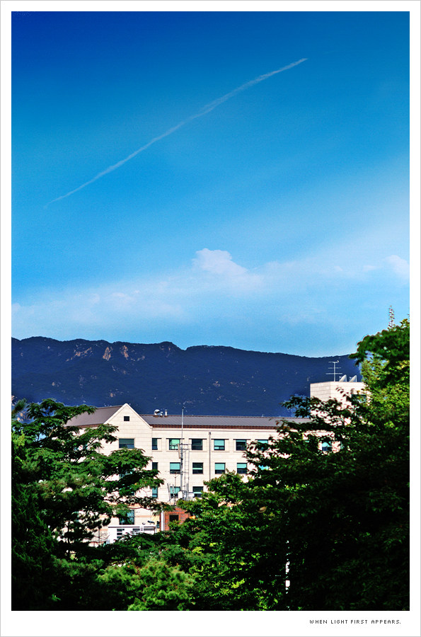 kwangwoon university